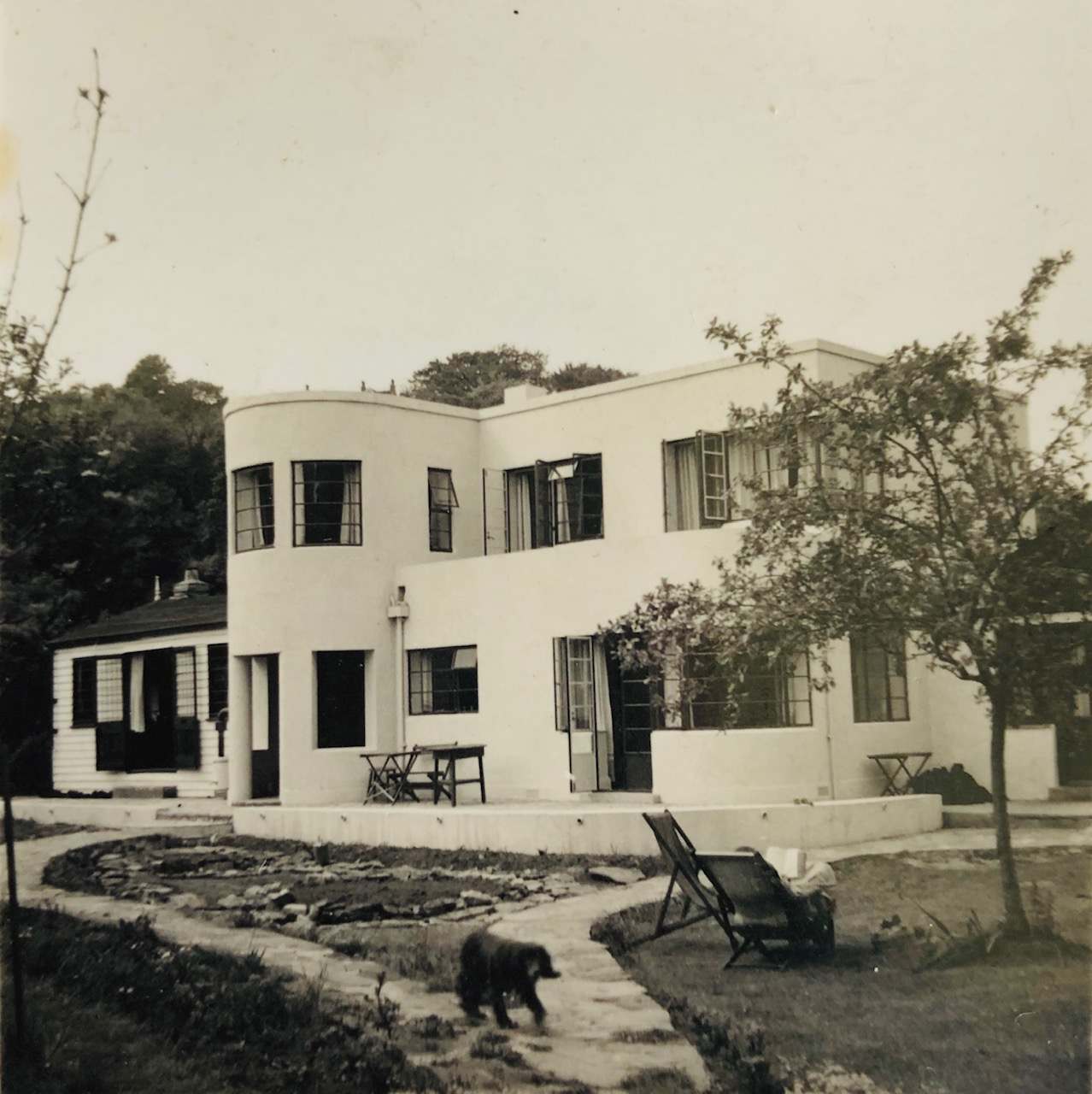 A photograph of Littlemead, the house Doris Hatt designed for herself and which was completed in 1939